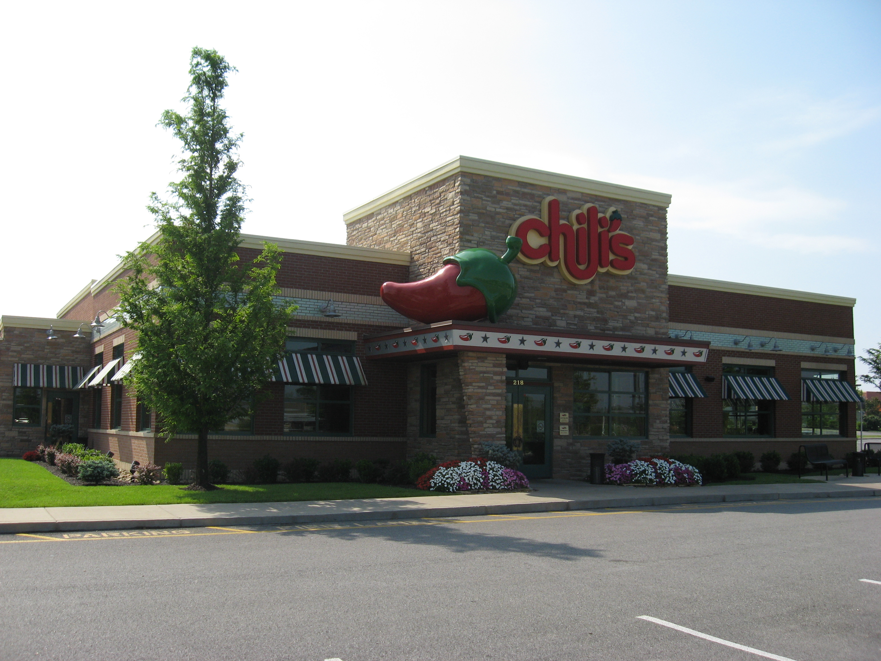 Chili's restaurant (Hendersonville, Tennessee, USA)